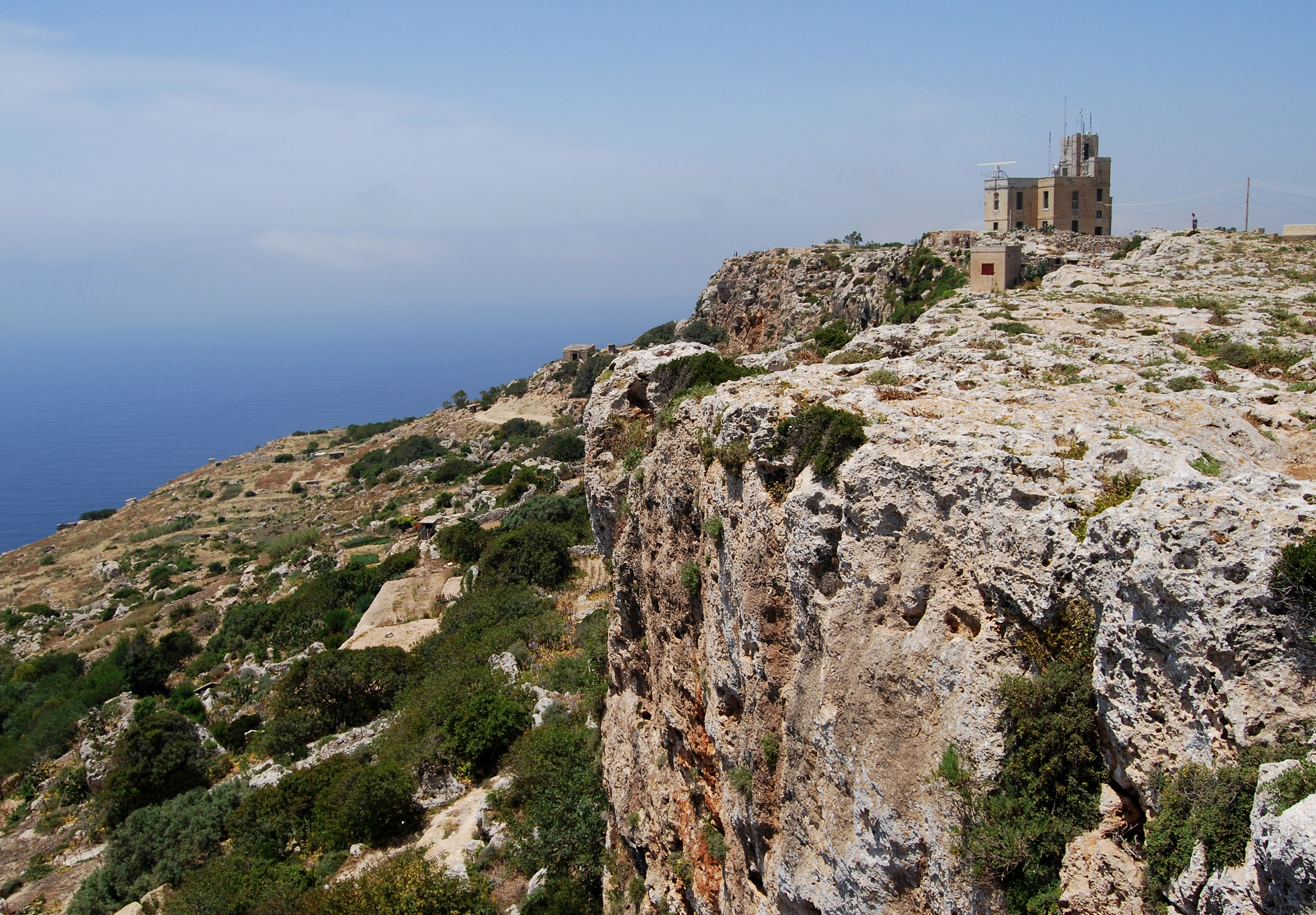 The Dingli Cliffs, a natural monument and the highest point of Malta.